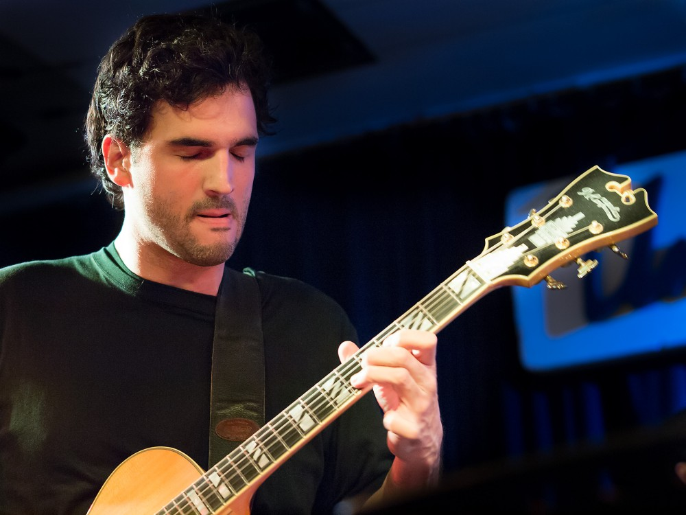 Scott DuBois, Jazz guitarist; Picture taken in Jazz Club Unterfahrt, Munich/Bavaria